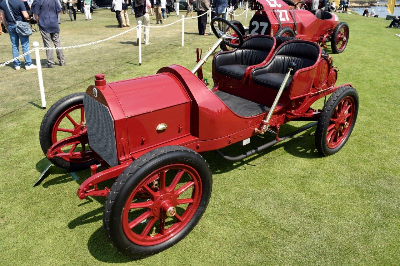 1909 Isotta Fraschini FENC s/n 6023 at Pebble Beach on 20 August 2017. This is one of four (estimate) that remain of the around 100 built. [1] It was imported to New York City in 1910 where it was sold for $2,700 at the Isotta Import Company. Discovered by Jeffrey Vogel in the 1980s, then owned by Robert Rubin. Auctioned by Mecum in 2013.[2] Has a 20 bhp 1,327 ccm SOHC engine (engine no. 10) at 2500 rpm and a 4 speed transmission. [3]